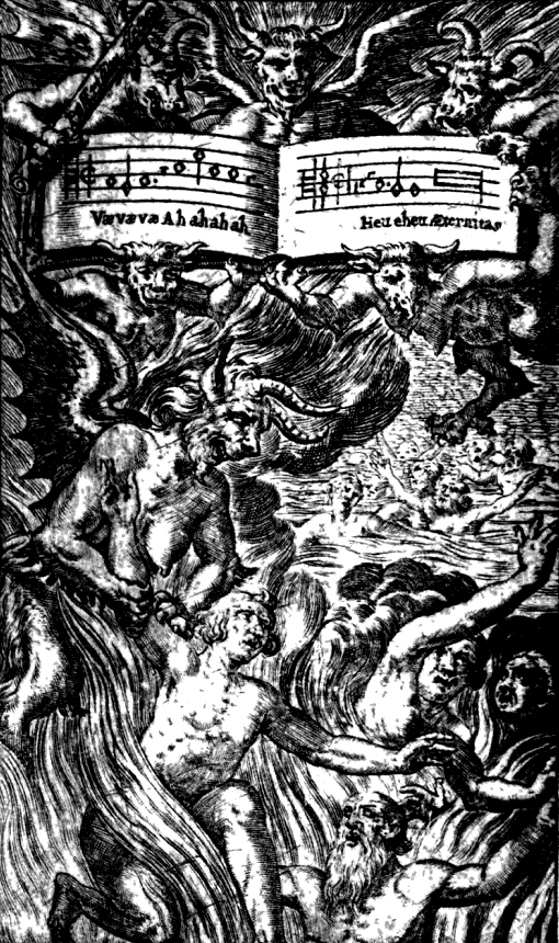 Illustration from Jeremias Drexels Der Verdambten fewrige immerwehrende Höllgfäncknuß , 1639. It introduces Chapter III, which covers the "Weeping and Wailing" in Hell; the Devil here provides the score.